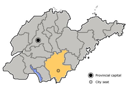 The prefecture-level city of Linyi is highlighted on this map of Shandong province, People's Republic of China.